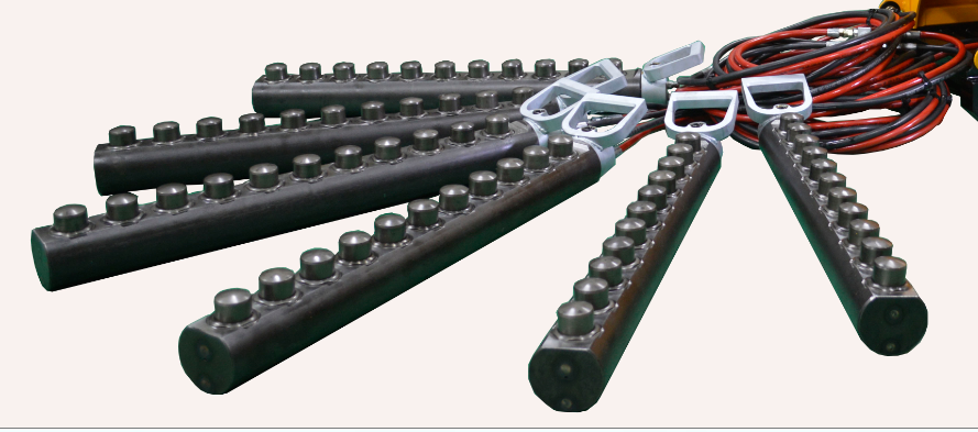 Piston Splitters of 85mm diameter cylinders